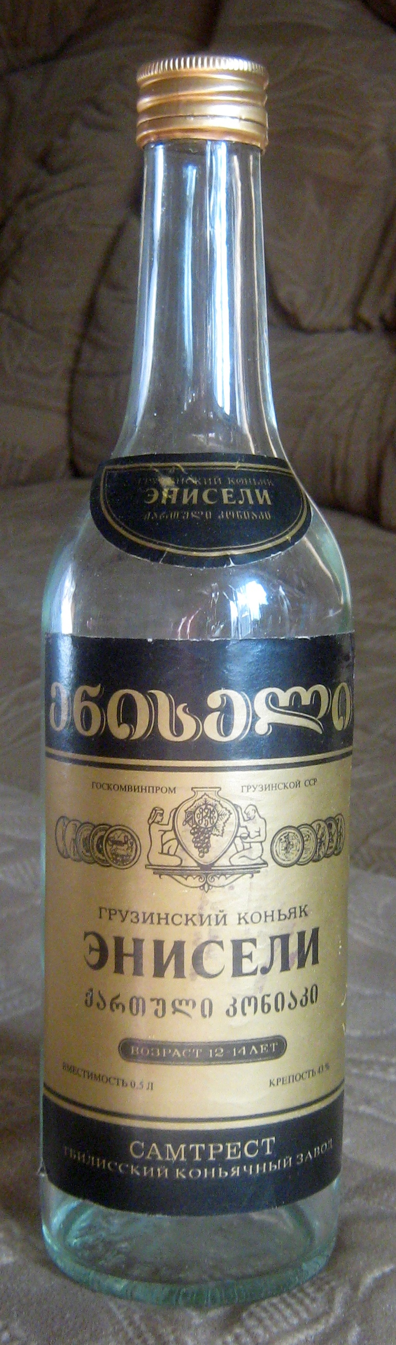 Eniseli brandy made in Tbilisi in 1980s